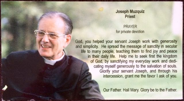 Rev. Joseph Muzquiz prayer card